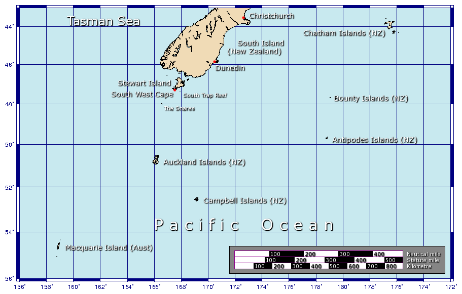 A map showing some of the outlying islands of New Zealand, including the Chatham Islands, Bounty Islands, Snares Islands, Antipodes Islands, Auckland Islands, and Campbell Islands, as well as Australia's Macquarie Island. Generated using GMT.